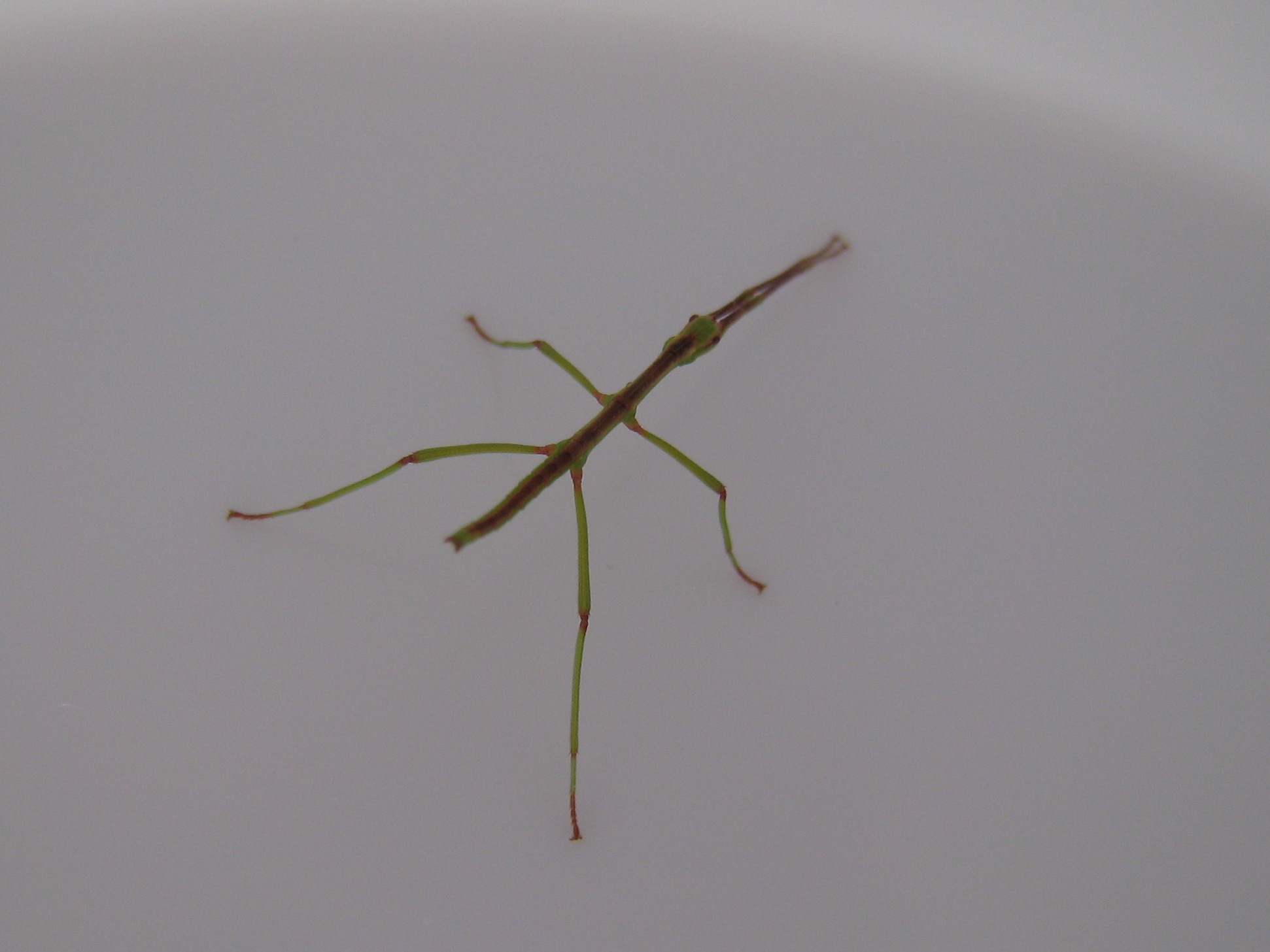 New Zealand Baby Stick Insect